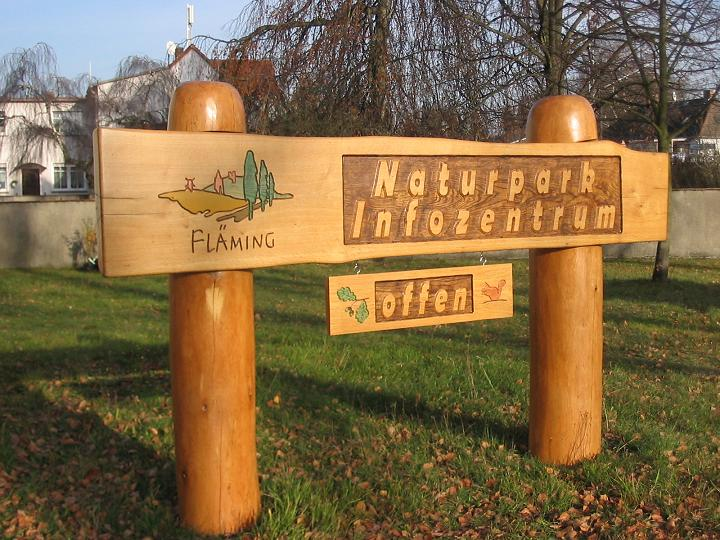 Sign infocenter nature park Fläming in a former school-building in the village Jeber-Bergfrieden. Jeber-Bergfrieden is a municipality in the the district Anhalt-Zerbst, state Saxony-Anhalt, Germany.